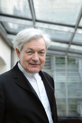 Picture